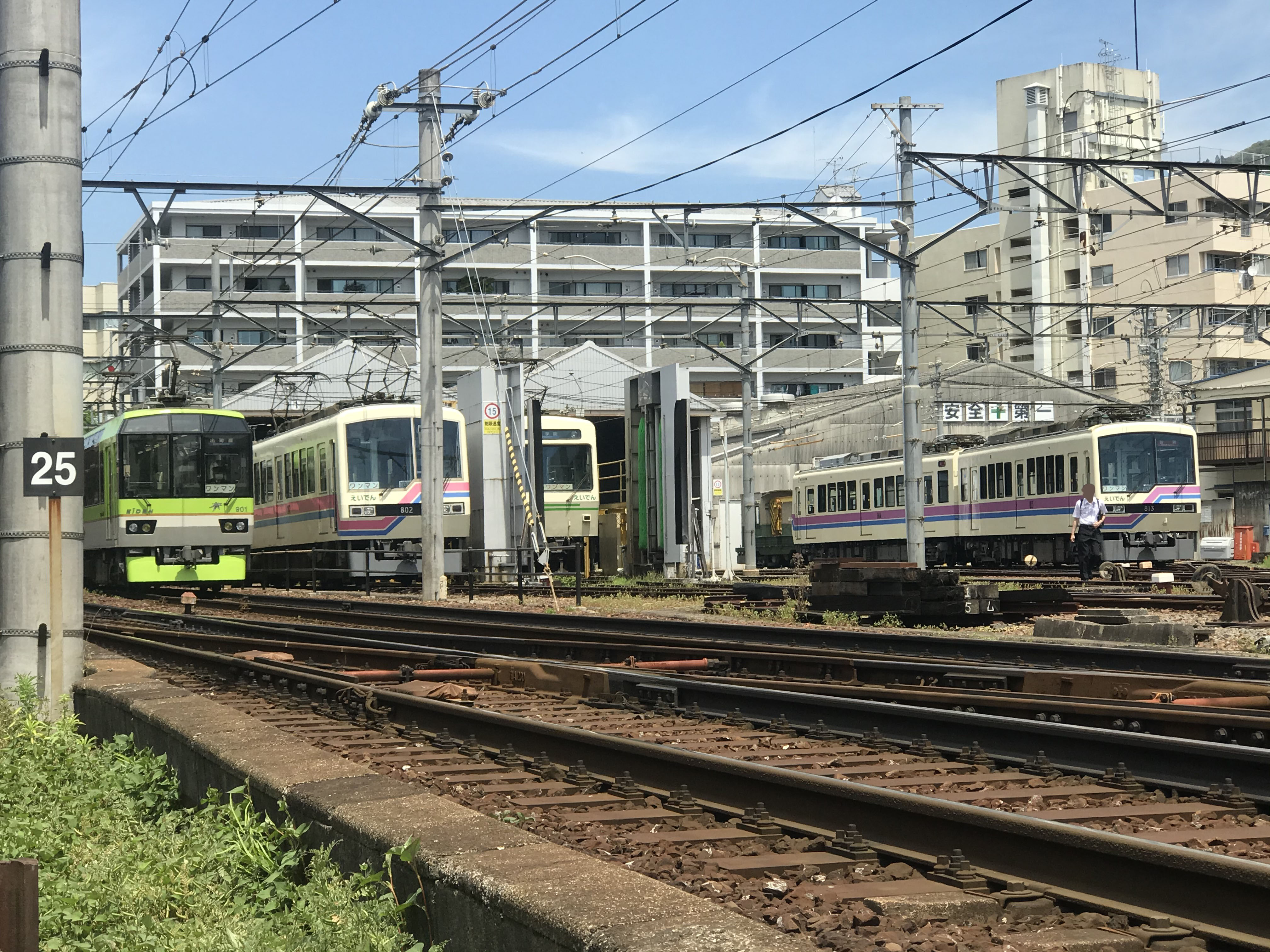 Eizan Electric Railway Shugakuin Depot overview